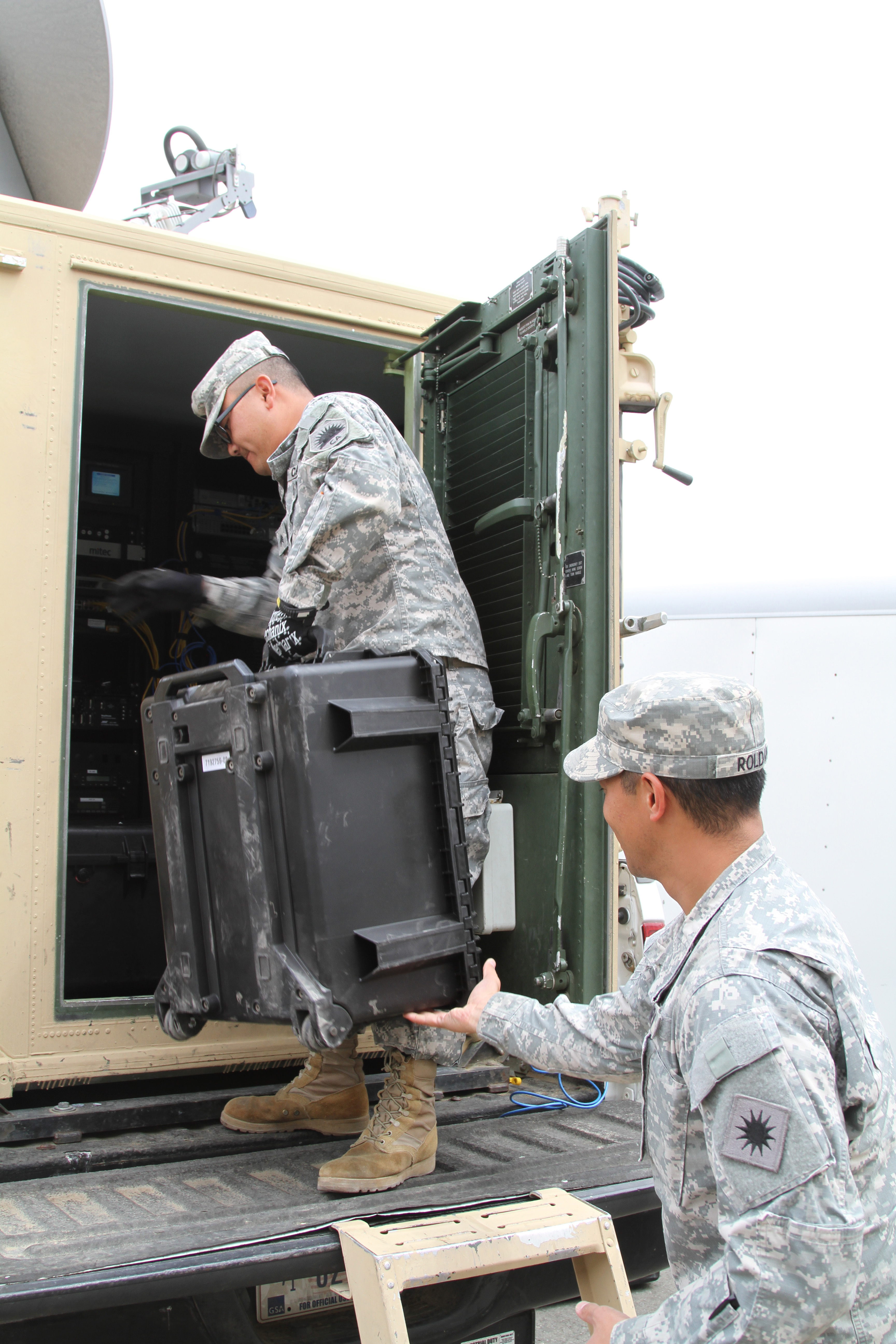 Sgt. Tien Quach, left, the California National Guard’s State Military Reserve, and Sgt. Jason Roldan load equipment into an Incident Commander’s Command, Control and Communications Unit (IC4U) early August at Mather Air Force Base in Mather, Calif. (U.S. Army National Guard photo/Staff Sgt. Eddie Siguenza)